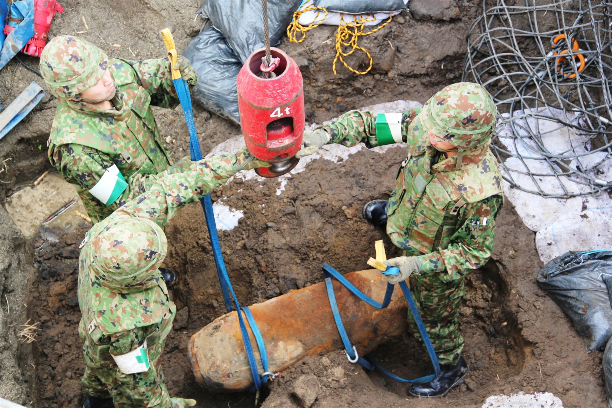 Bomb disposal in Sendai Airport (Miyagi, Japan)